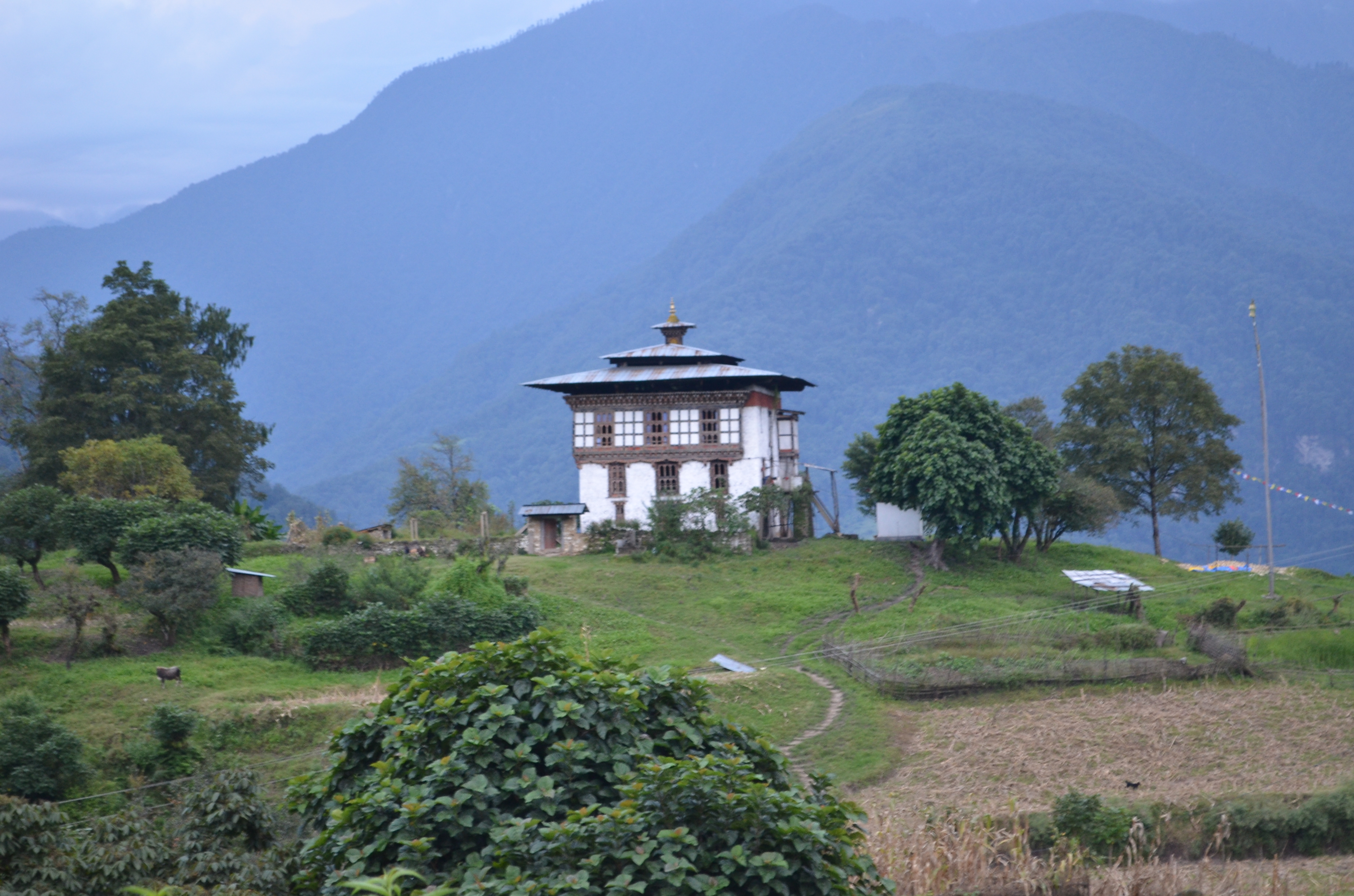 Dungkar Choje Naktsang the ancestral home of the Kurto Dungkar Choje (kur stod gdung dkar chos rje) family. who were the ancestors of the Bhutanese kings. Dungkar, Kurtoe Gewog, Lhuntse District, Bhutan